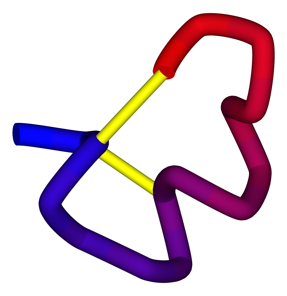 Schematic representation of the three-dimensional structure of α-conotoxin PnIB from Conus pennaceus, colored from N-terminal end (blue) to C-terminal end (red). Disulfide bonds are shown in yellow.Created using Accelrys DS Visualizer Pro 1.7 and GIMP.